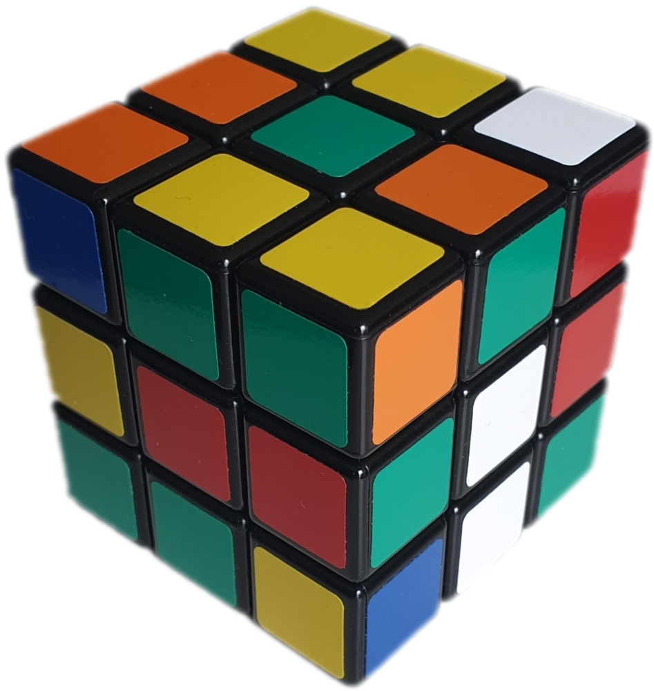 An image of a Rubik's cube in scrumbled state.